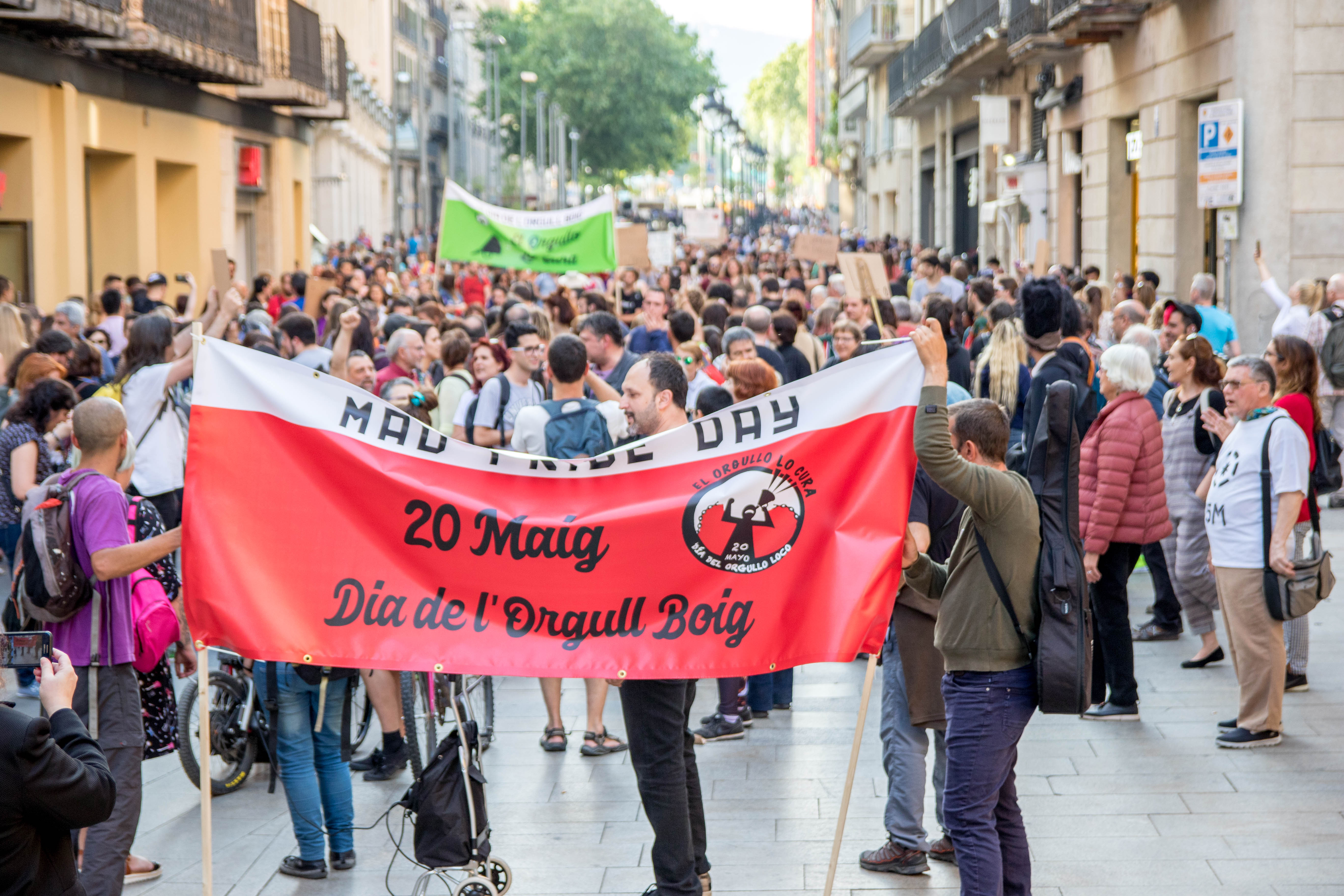 Mad Pride Day, Barcelona 2018